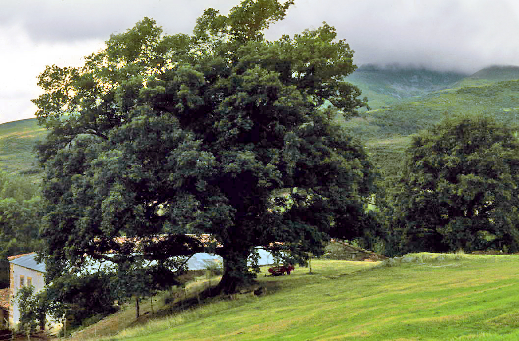 Old holm oak [Quercus ilex] known as "La cajigona de Casa Sopeña". Abiada, Hermandad de Campóo de Suso, Cantabria, Spain